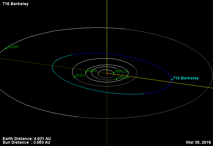 Orbit of asteroid 716 Berkeley and its location in Solar system